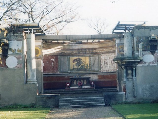 Remains of St George's Chapel. The sanctuary is all that remains of the former military chapel or "Garrison Church" opposite the former Royal Artillery headquarters. The chapel was built in 1873 (or 1863 - sources vary) and bombed in WW2. The remains are Grade 2 listed and it is on English Heritage's "buildings at risk register".